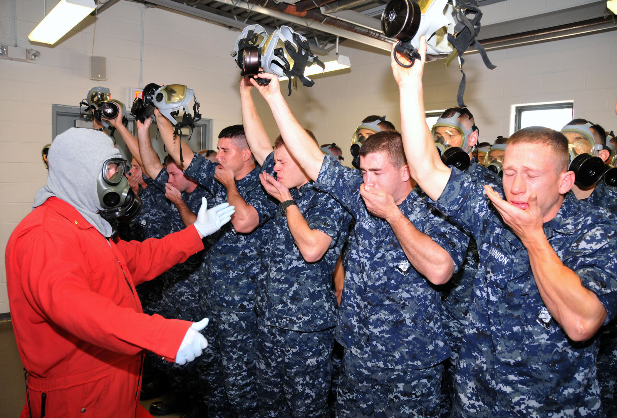 GREAT LAKES, Ill. (June 29, 2012) Chief Machinist’s Mate James Oden, left, a facilitator in the USS Chief fire fighting trainer at Recruit Training Command, instructs recruits to state their names and division before leaving the confidence chamber in the trainer. More than 35,000 recruits go through five days of training aboard USS Chief, learning to fight shipboard fires and how to handle chemical, biological, and radiation attacks. (U.S. Navy photo by Scott A. Thornbloom/Released) 120629-N-IK959-522 Join the conversation navylive.dodlive.mil